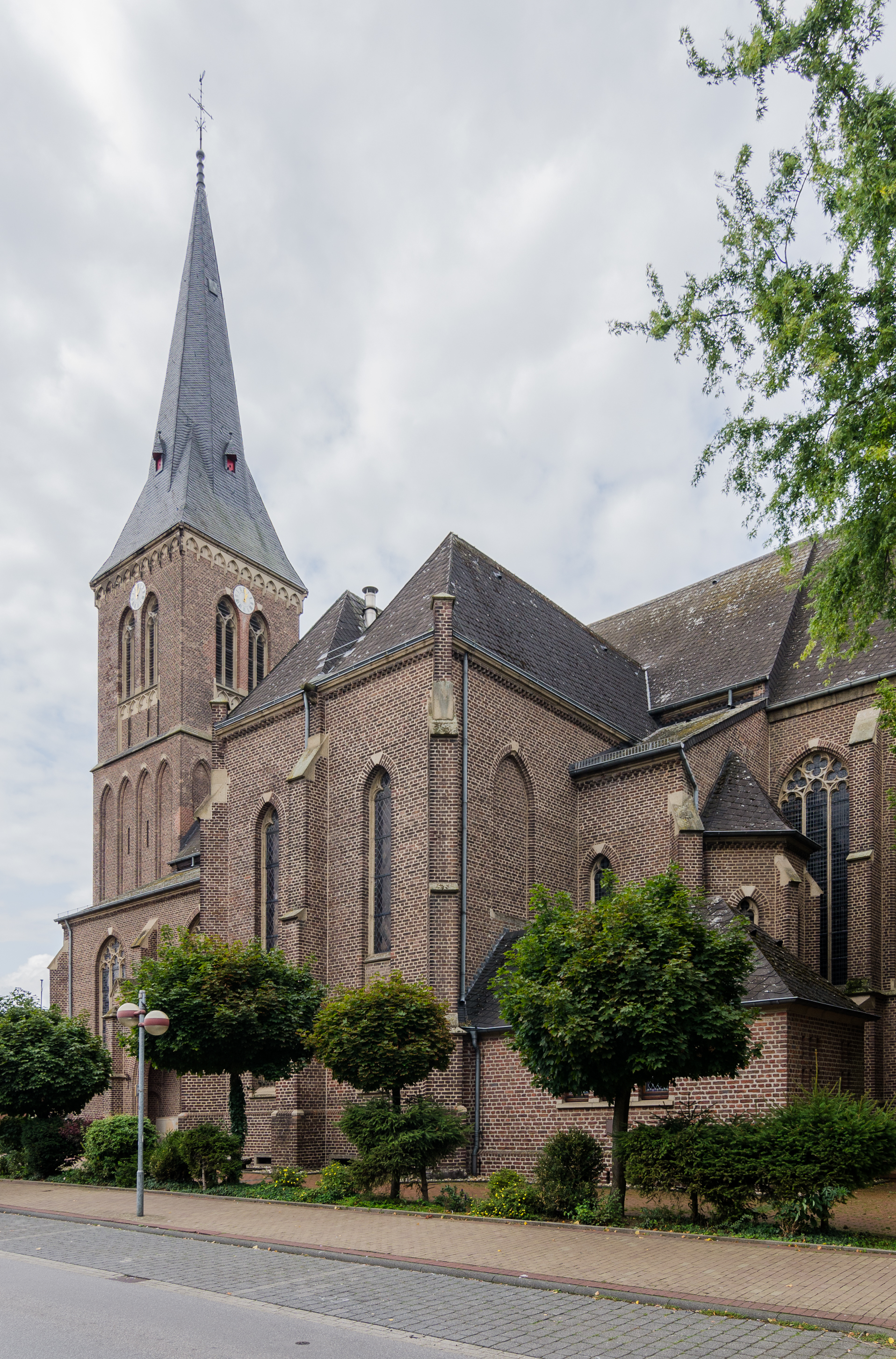 Alpen (North Rhine-Westphalia, Germany) – Catholic Saint Ulrich Church – east view